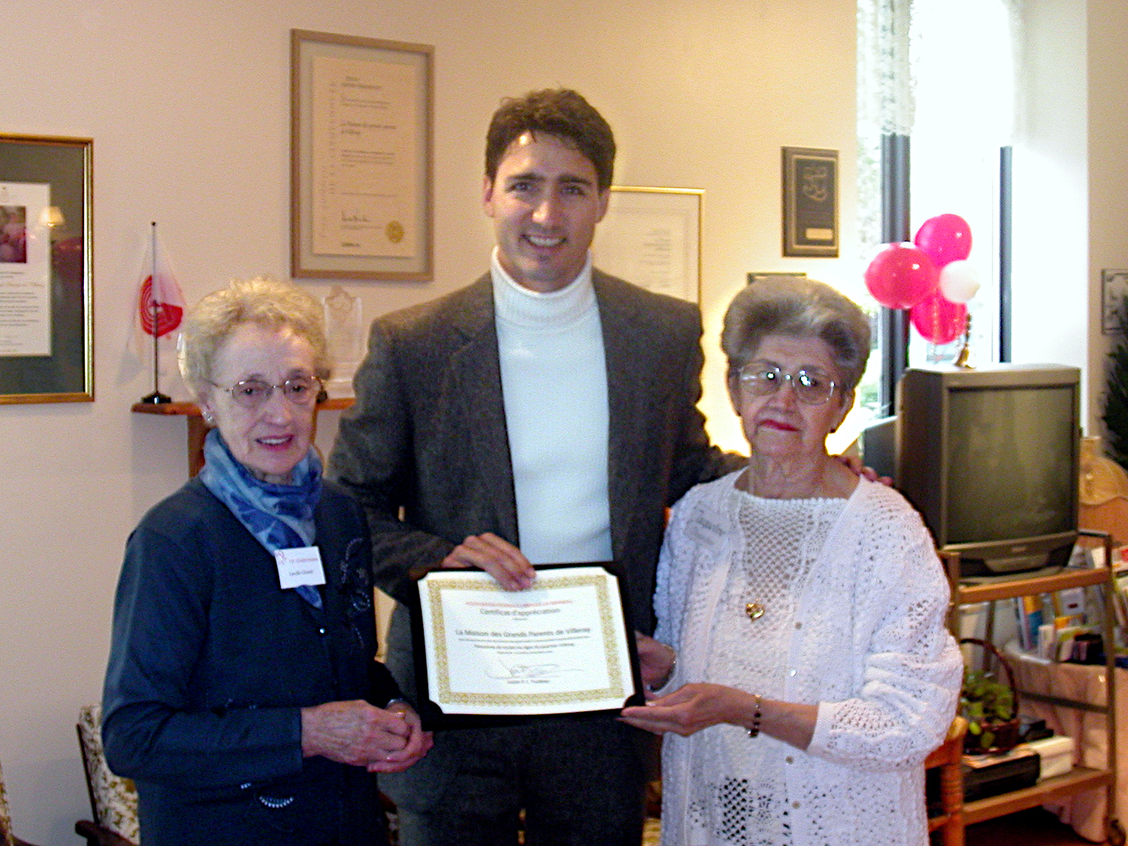 Justin Trudeau at the Maison des Grands-Parents de Villeray.